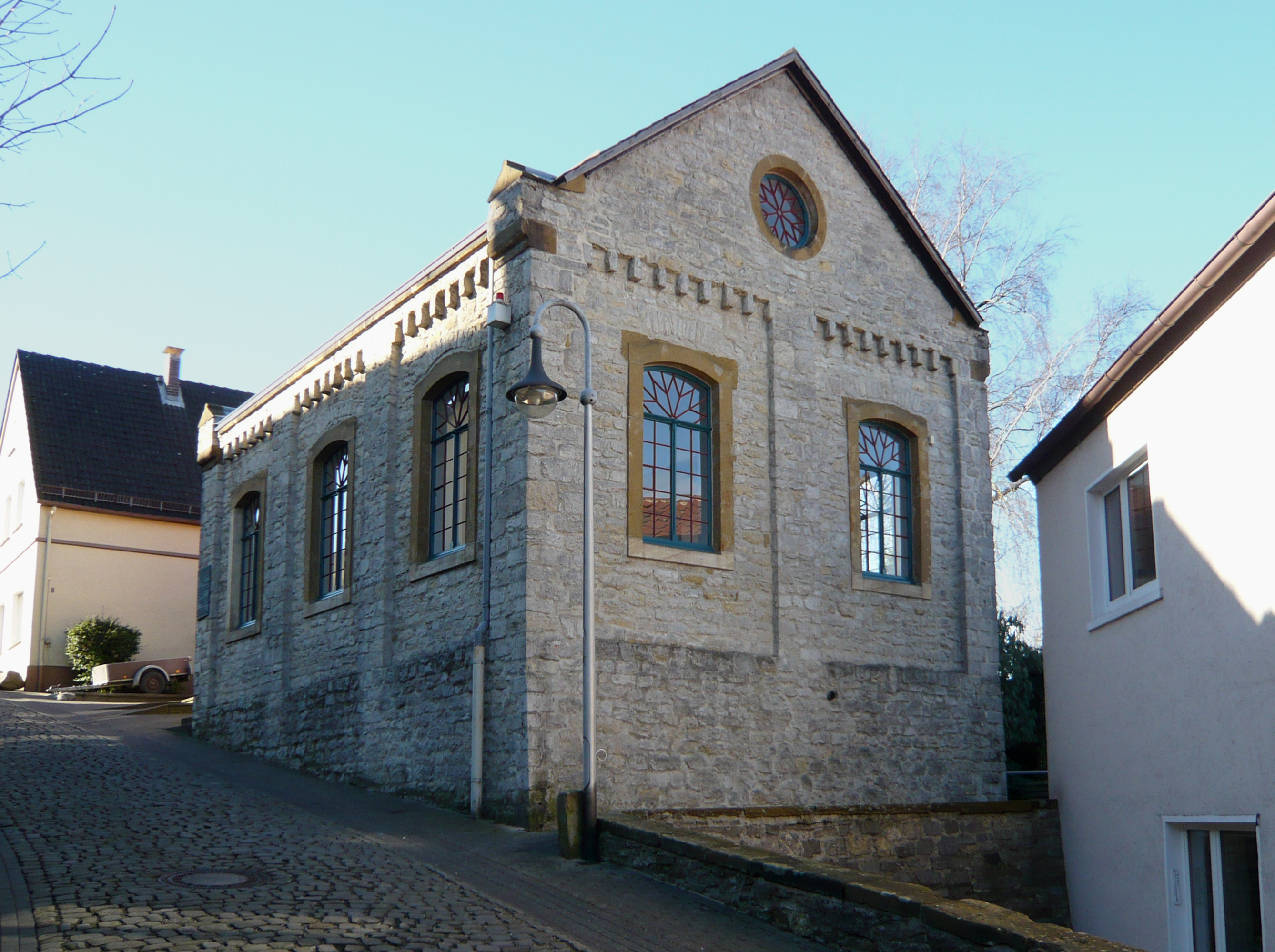 Synagogue in Oerlinghausen, Germany This is a photograph of an architectural monument.